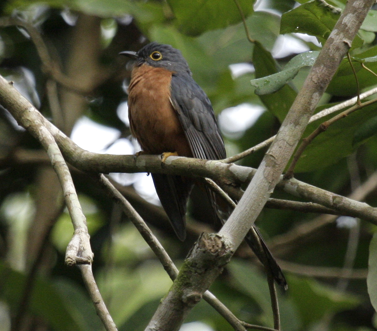 Chestnut-breasted Cuckoo (Cacomantis castaneiventris) Iron Range NP, Cape York, North Queensland, Australia